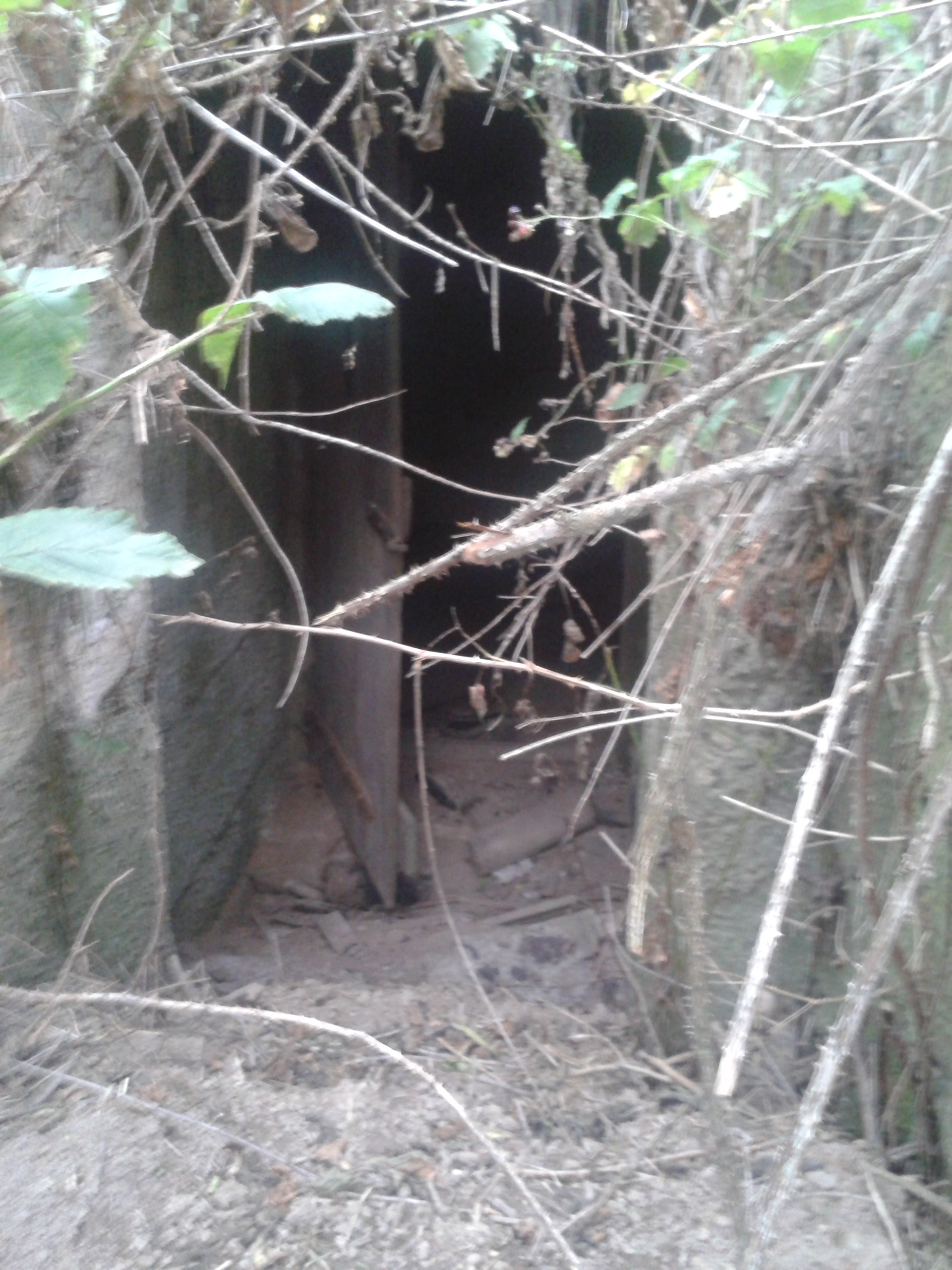 Western entrance to the probably ammunition cellar fire position anti-aircraft artillery battery Točná